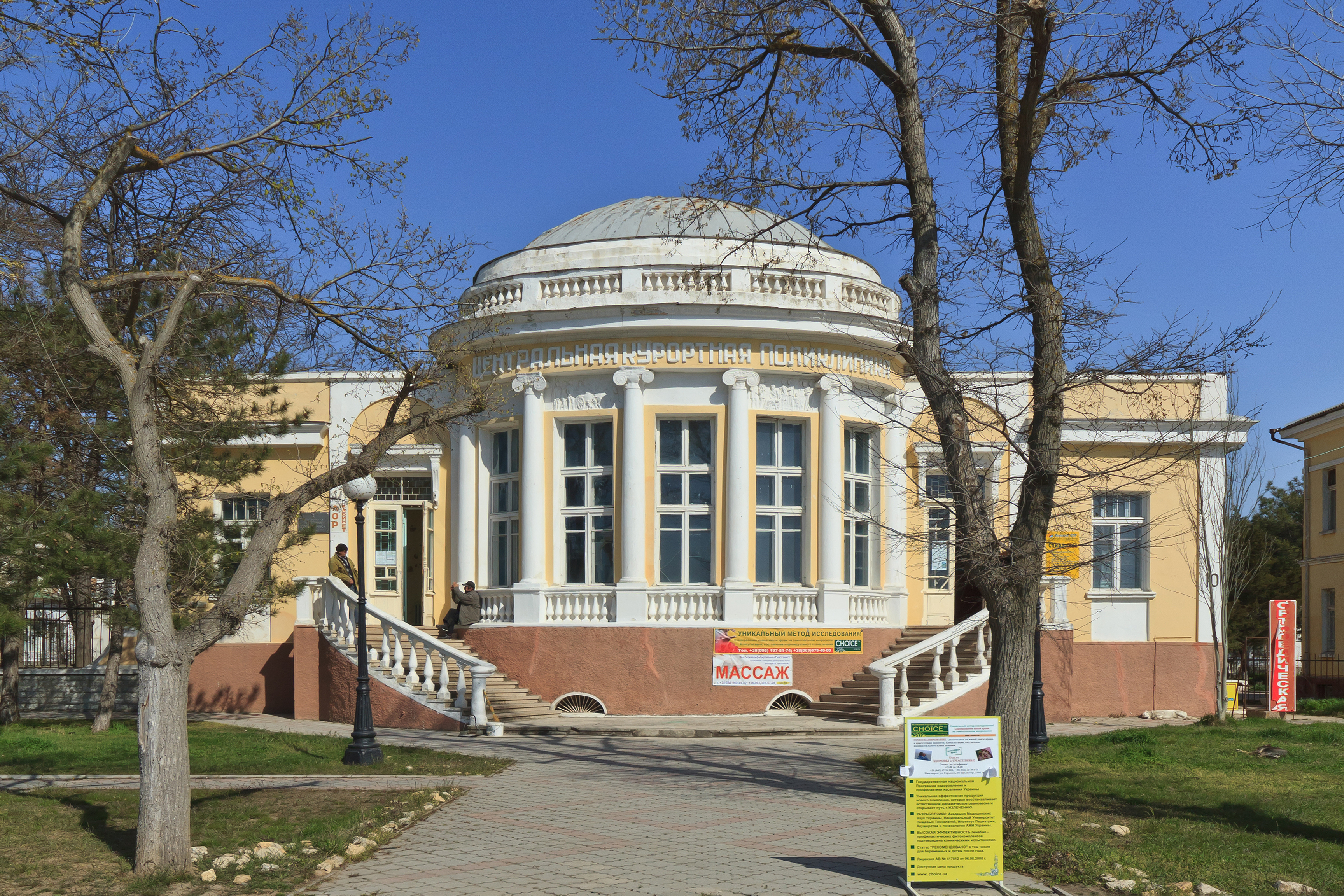 Spa healthcare building in Eupatoria, Crimean Peninsula.